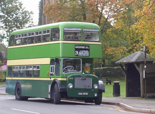 Dennis Loline III at Grayshott